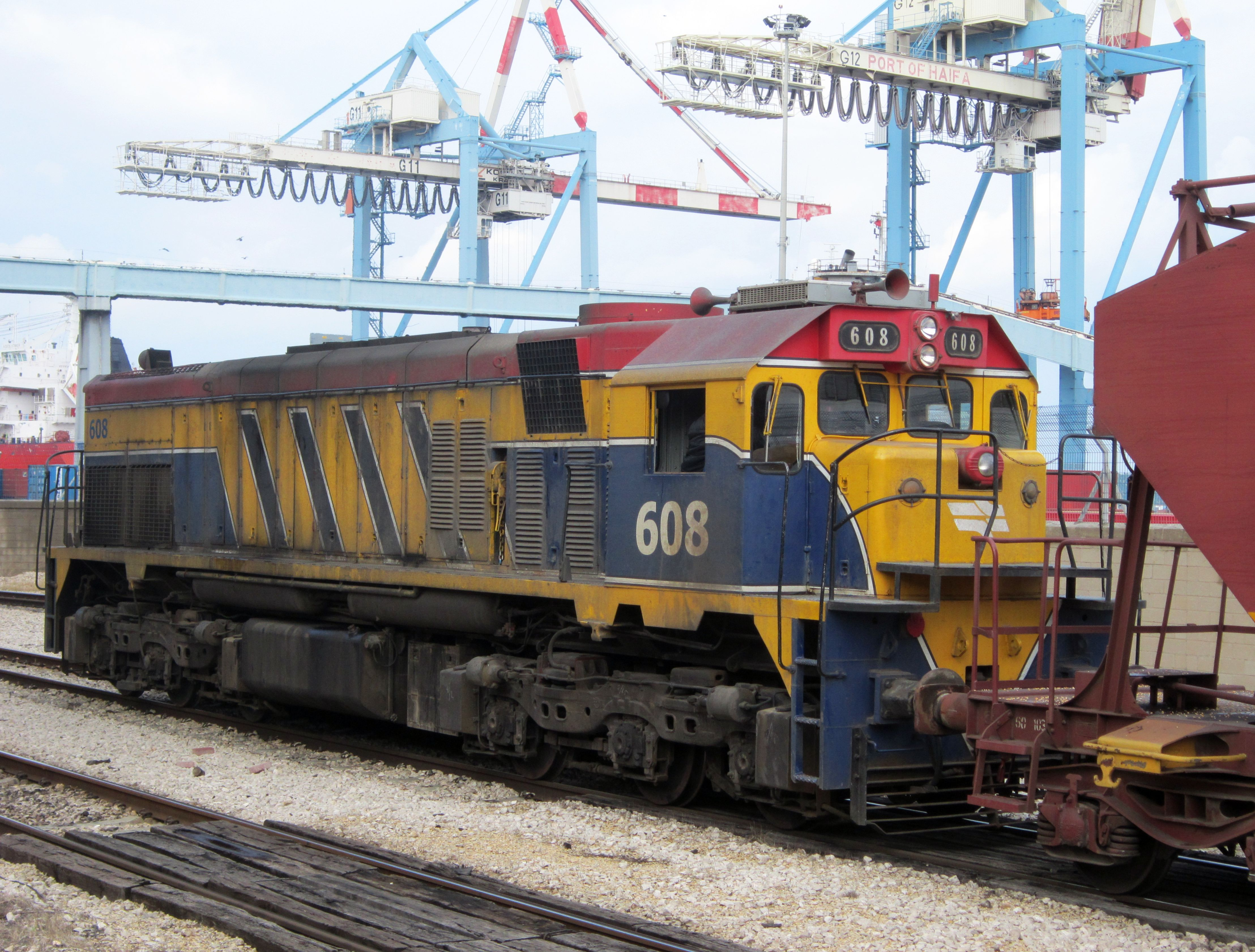 Israel Railways EMD G26CW at Haifa Center HaShmona Railway Station.